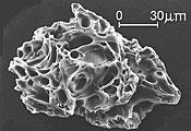 A scanning electron micrograph image of a volcanic ash particle from the 18 May 1980 eruption of Mount St. Helens volcano in Washington state.